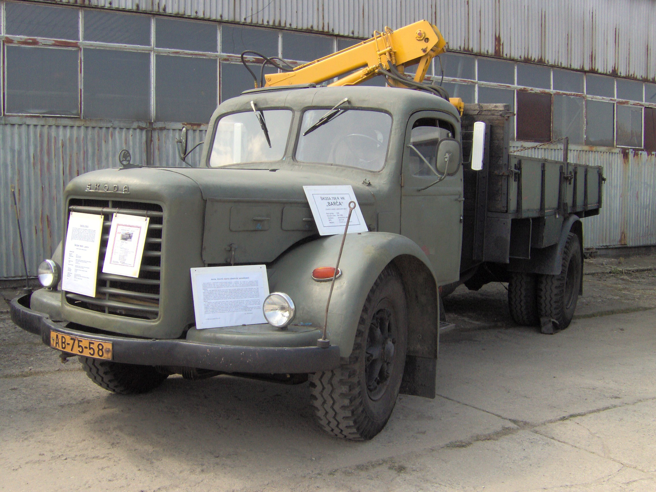 Škoda 706 R truck in Brno, Czech Republic